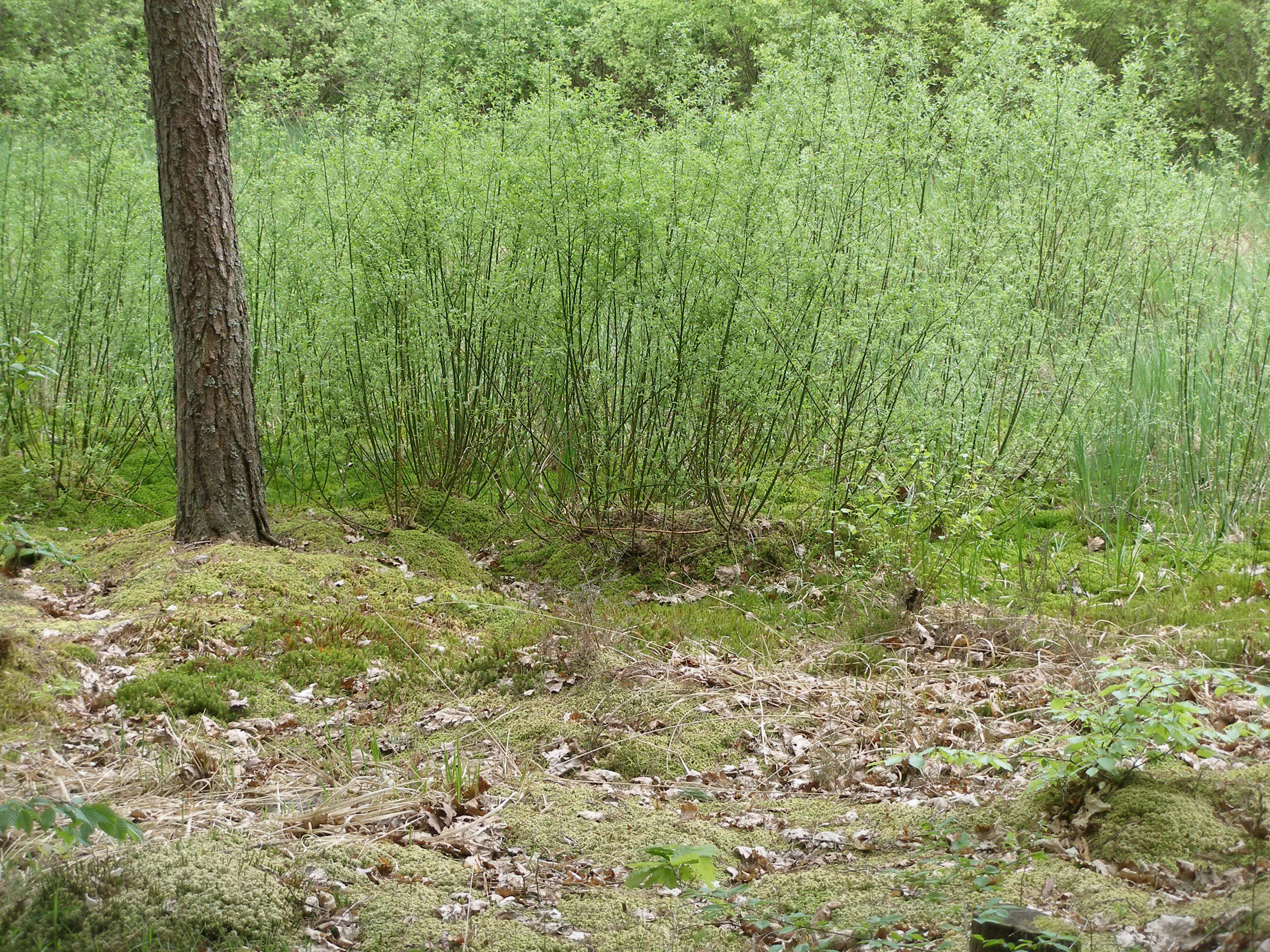 Fekete-tó, a transition between fens and bogs in Vendvidék region, Hungary. The temperate climate of the country keeps the peatlands from developing into emerged, only precipitation-fed habitats.